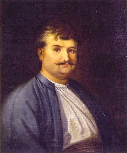 0,61 x 0,50 μ. Donation of Damianos Kyriazis to the Benaki Museum (Code: ΓΕ 11176)